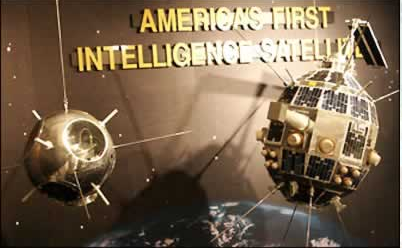 GRAB: America's First Intelligence Satellites: (left: GRAB/Dyno 20 inch spherical satellite; right: 27 inch multiface satellite)